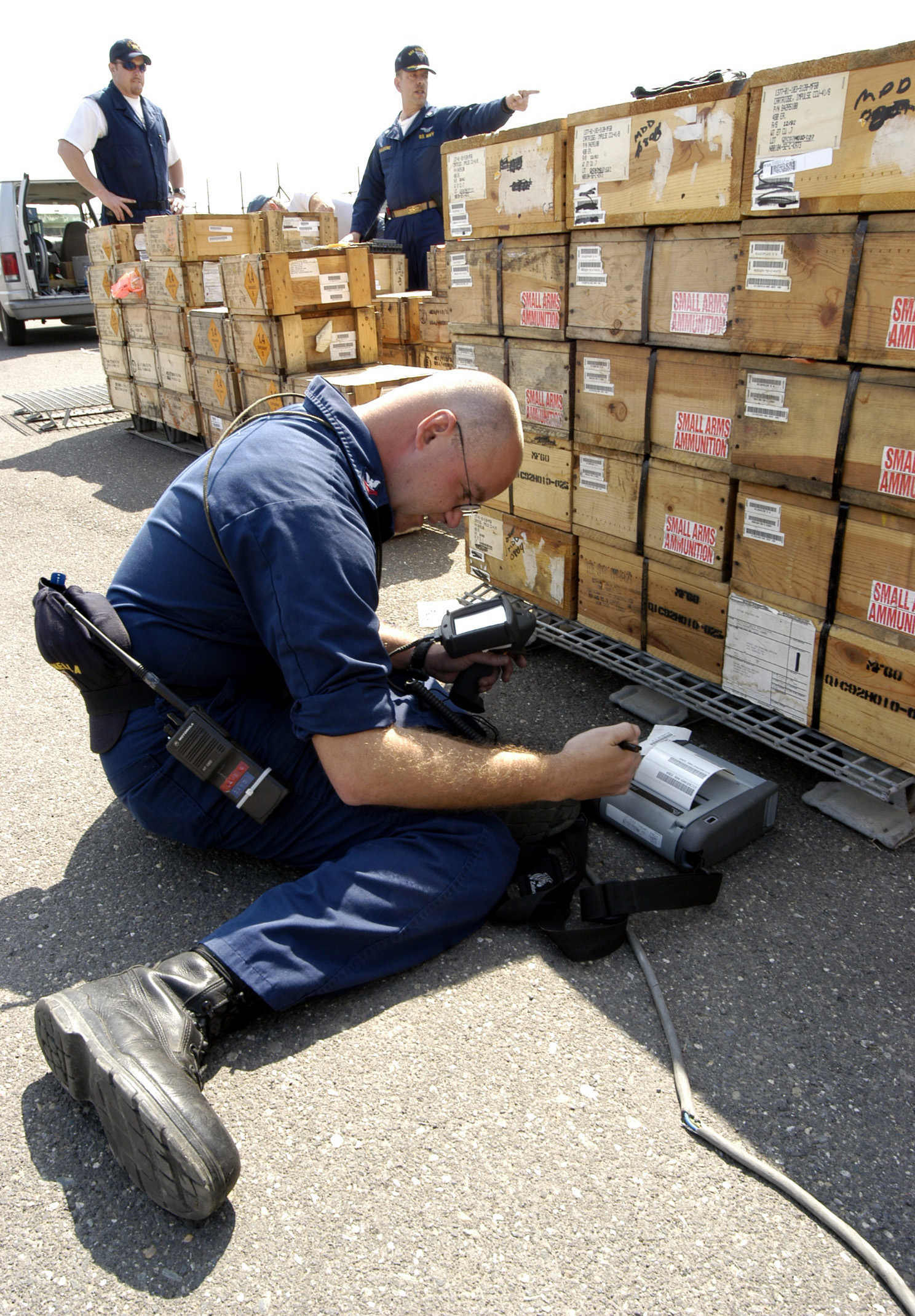 Naval Air Station (NAS) Sigonella, Sicily (Mar. 21, 2003) -- Aviation Ordnanceman 3rd Class Colby Willett uses a barcode scanner and printer to inventory cases of ammunition at the Naval Air Station's weapons department before shipment to units deployed in the Mediterranean. NAS Sigonella provides logistical support for Sixth Fleet and NATO forces in the Mediterranean Sea. U.S. Navy photo by Photographer's Mate 2nd Class Damon J. Moritz. (RELEASED)